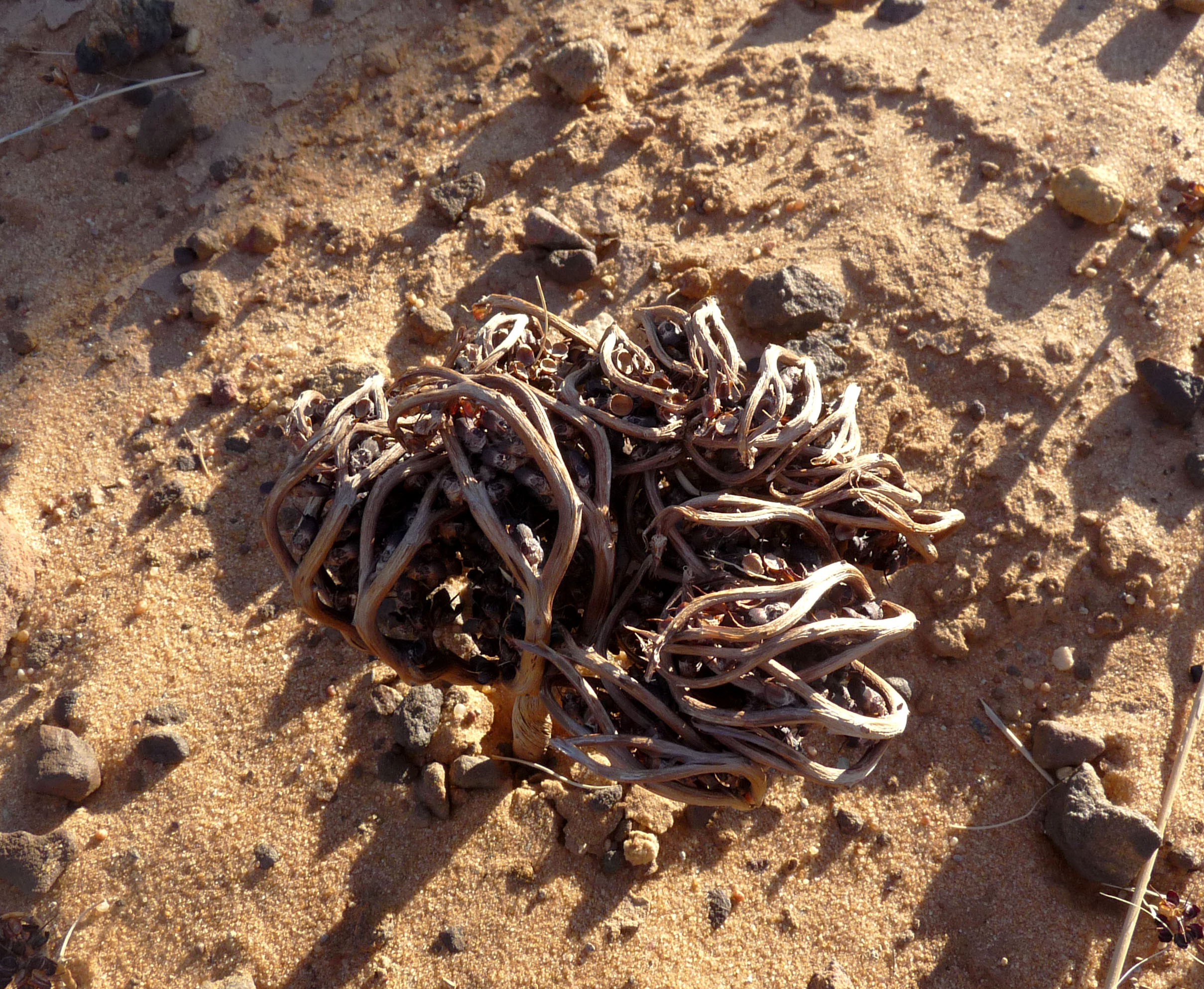 Anastatica hierochuntica near Zarga mountains (Adrar, Mauritania)